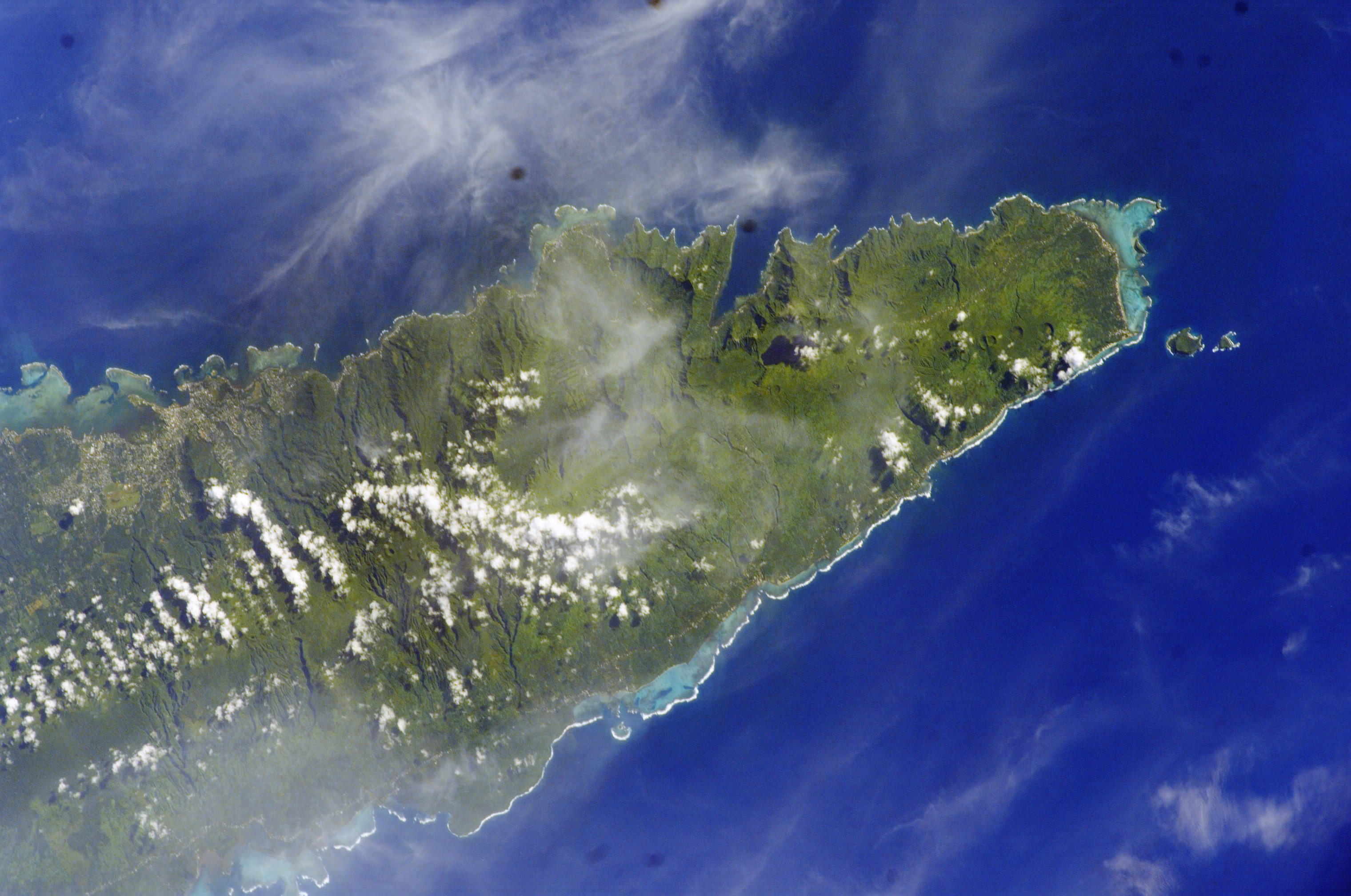 Upolu island eastern half with Aleipata islands, Samoa